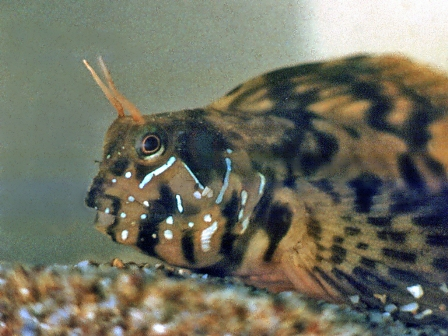 Aidablennius sphynx (formerly known as Blennius sphynx), male. This specimen is from the Black Sea.